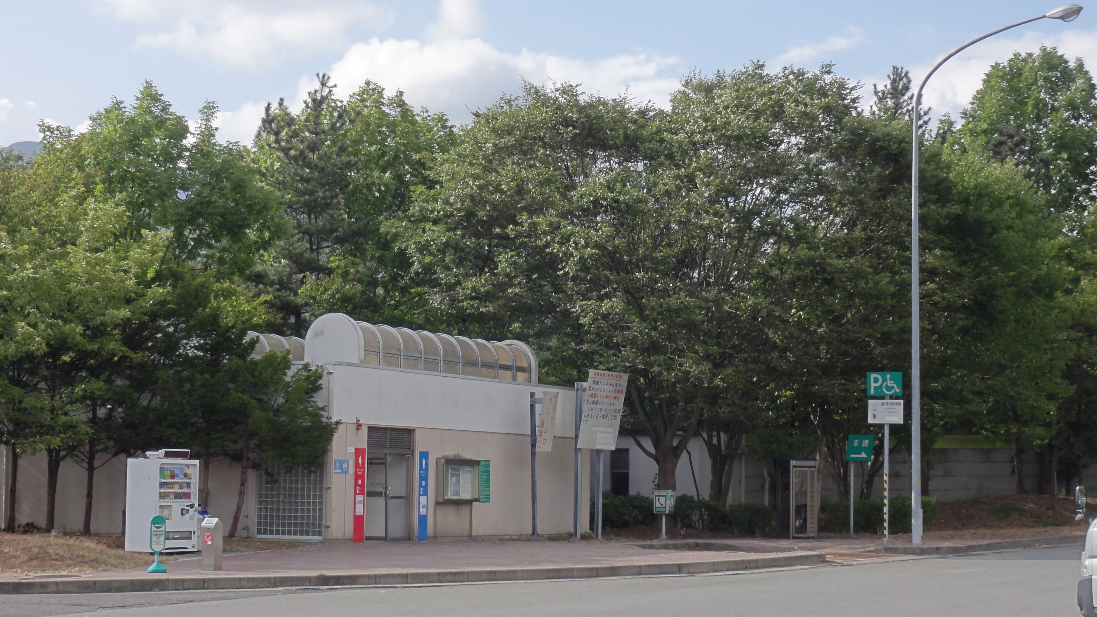 Shimomoku Paking Area,Gunma prefecture, Japan